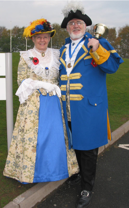 The best dressed town crier and escort (currently) in the World